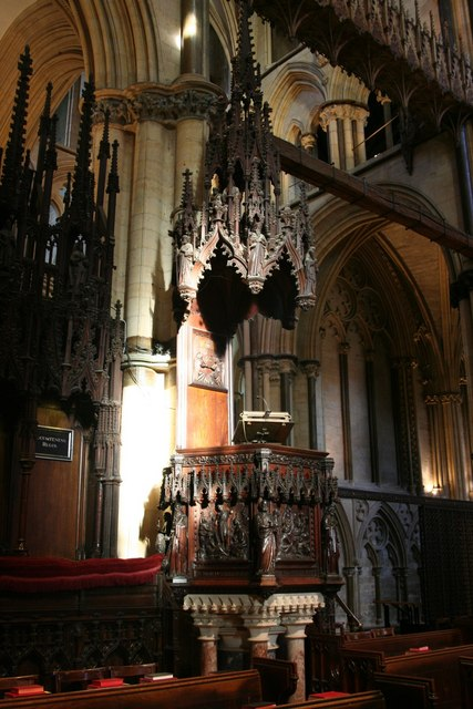 Choir pulpit Elaborately carved oak pulpit designed by Sir George Gilbert Scott in 1863-4 with the four evangelists at the corners, scenes in relief and a tall pinnacled canopy. It was presented to St.Mary's Cathedral by the Lincoln Architectural Society in memory of Archdeacon Trollope, later Suffragan Bishop of Nottingham.